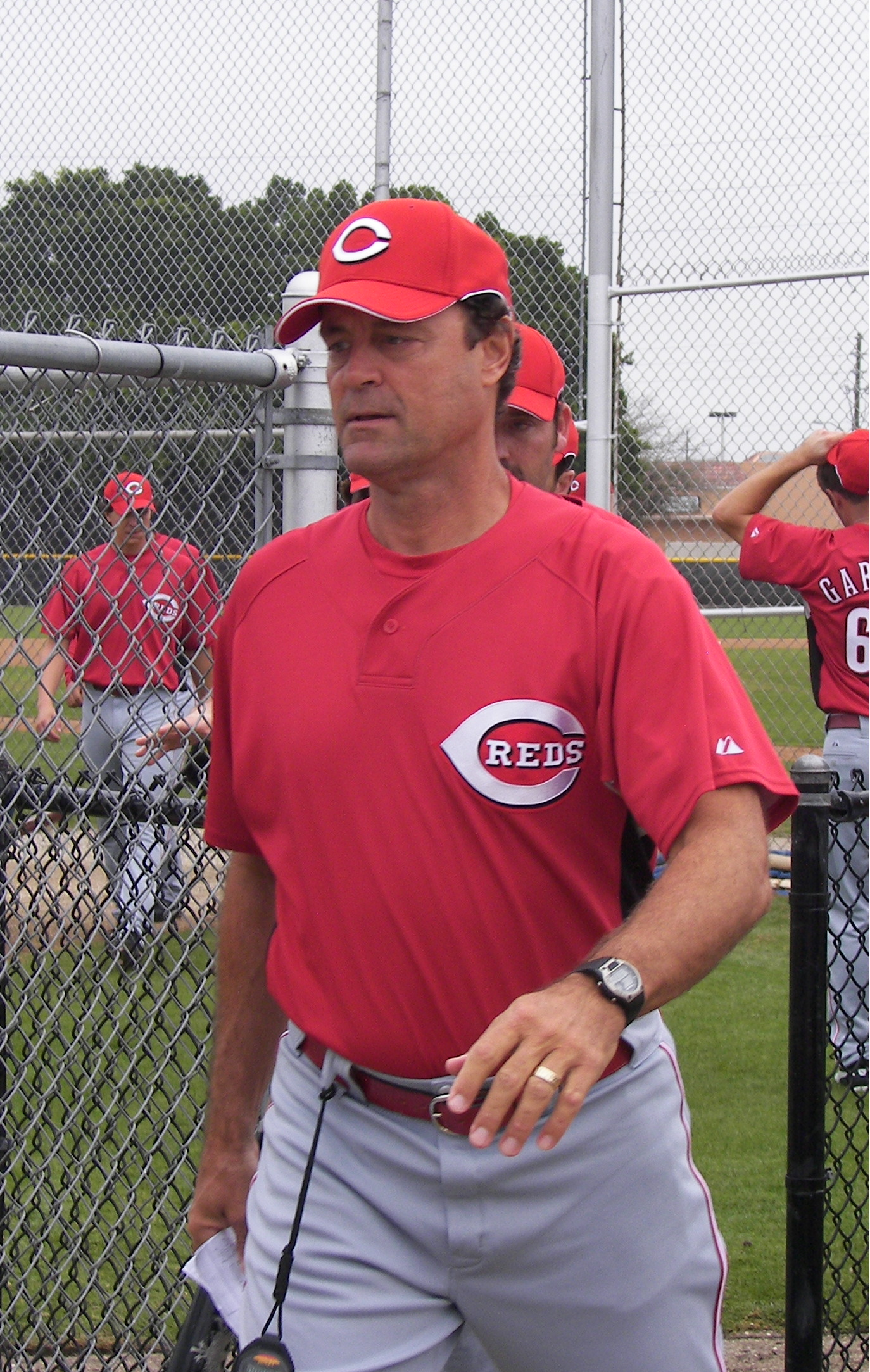 Louisville Bats pitching coach and former Major League Baseball pitcher, Ted Power during a Cincinnati Reds Spring Training workout outside Ed Smith Stadium in Sarasota, Florida.